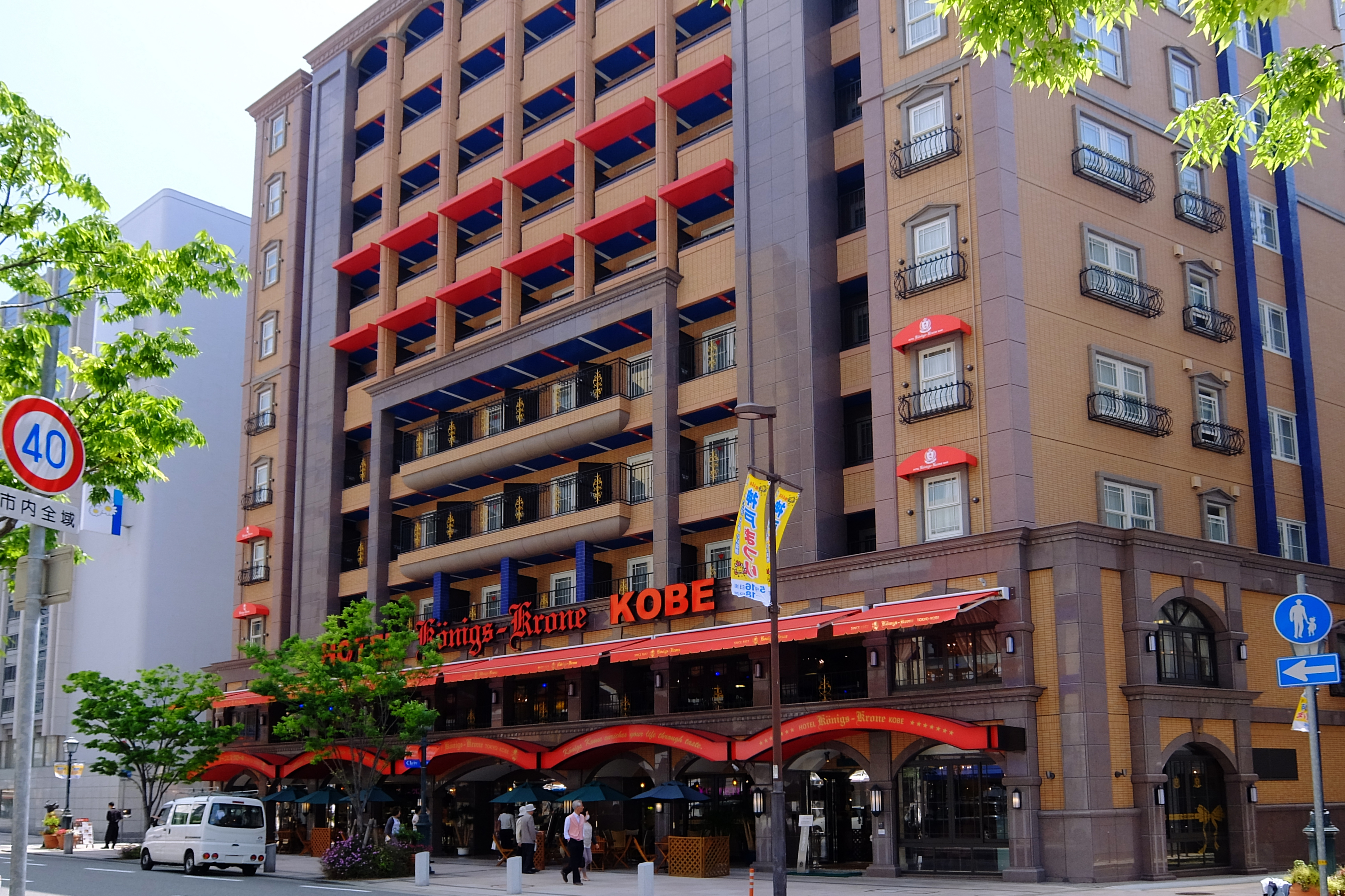 Hotel Konigs-Krone in Kobe, Hyogo prefecture, Japan